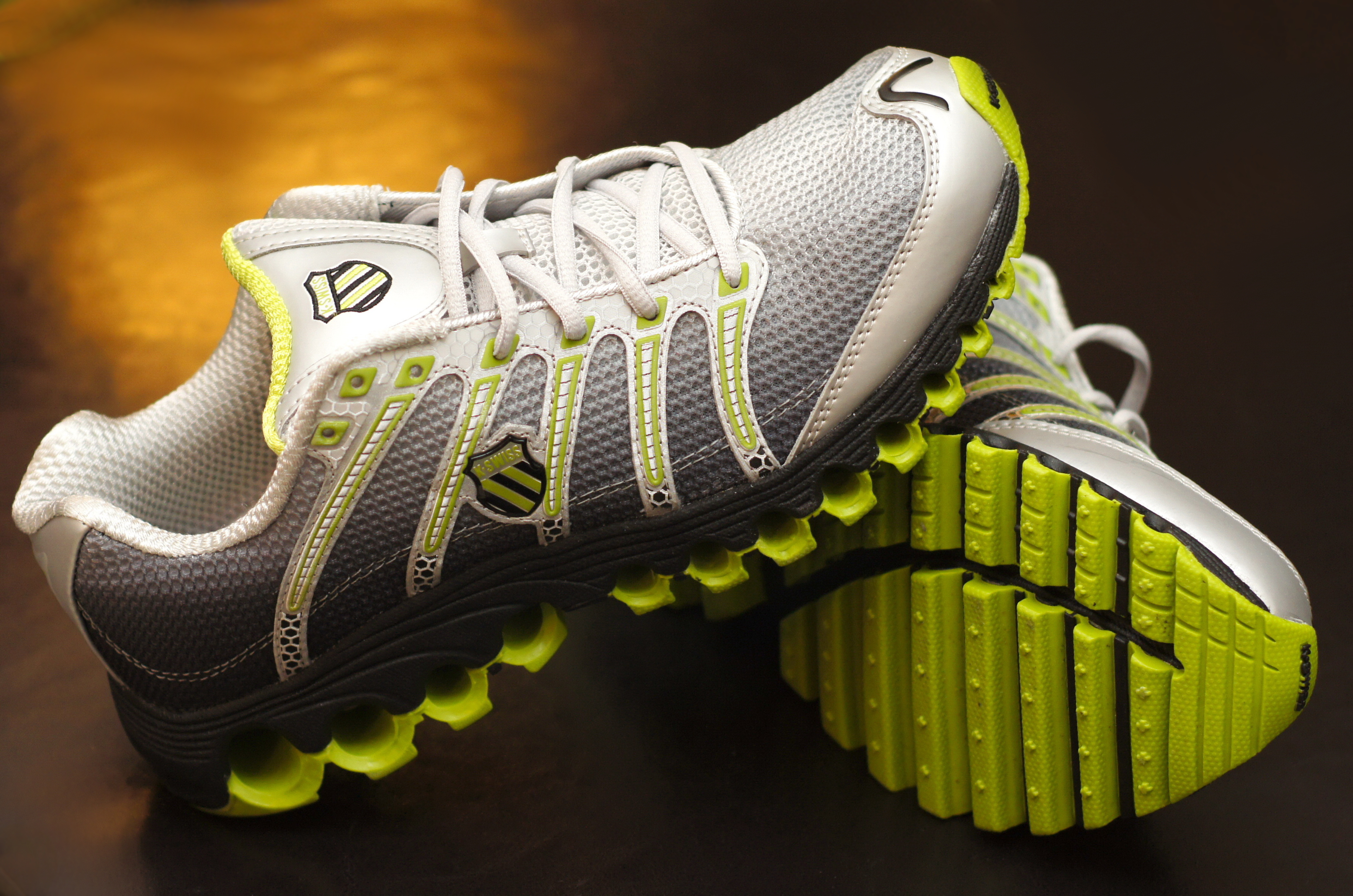 K-Swiss Tubes Run 100 running shoe